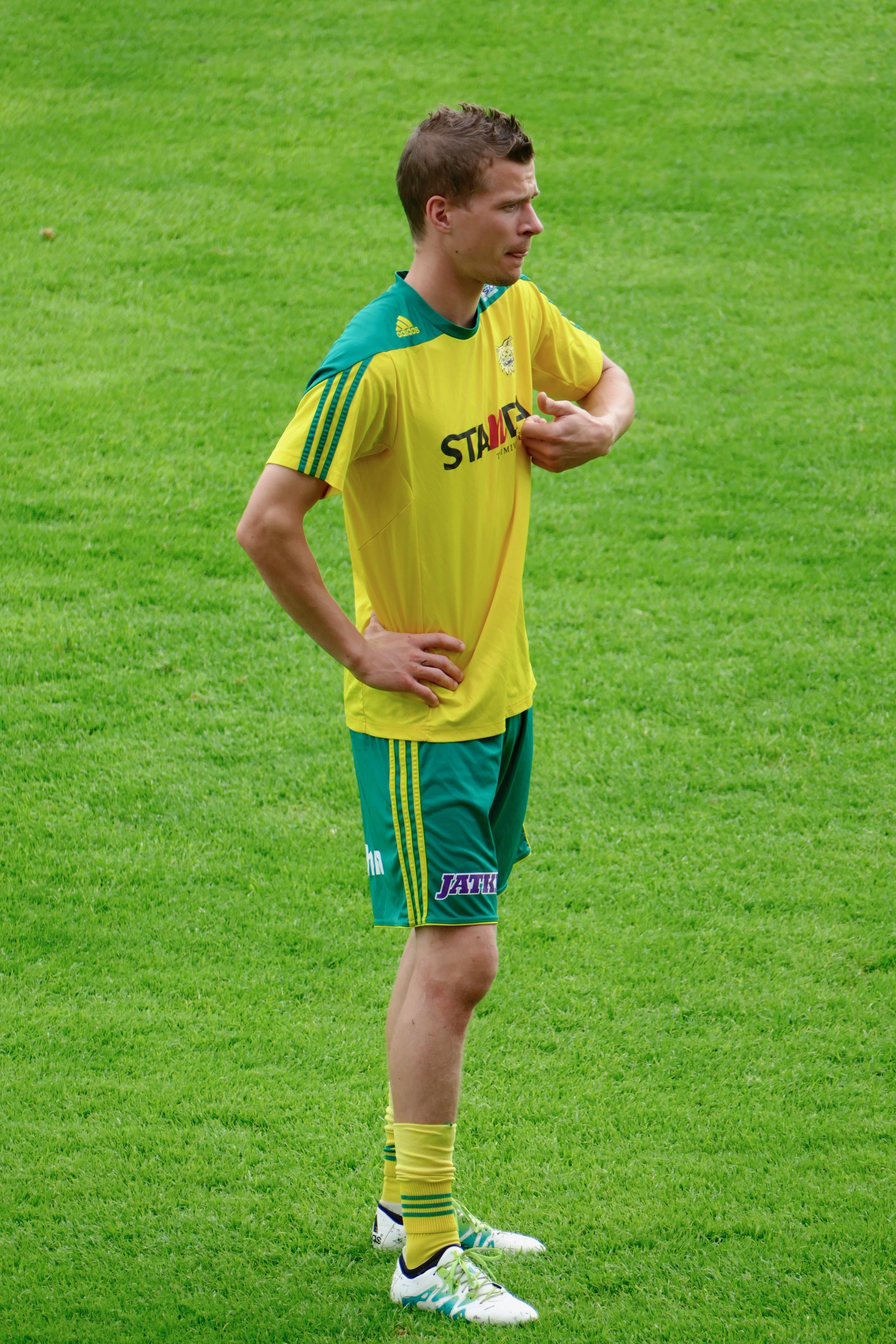 Finnish footballer Jonne Hjelm of Tampere Ilves warming up before a Veikkausliiga match against Inter Turku in Tampere, Finland, August 2016.